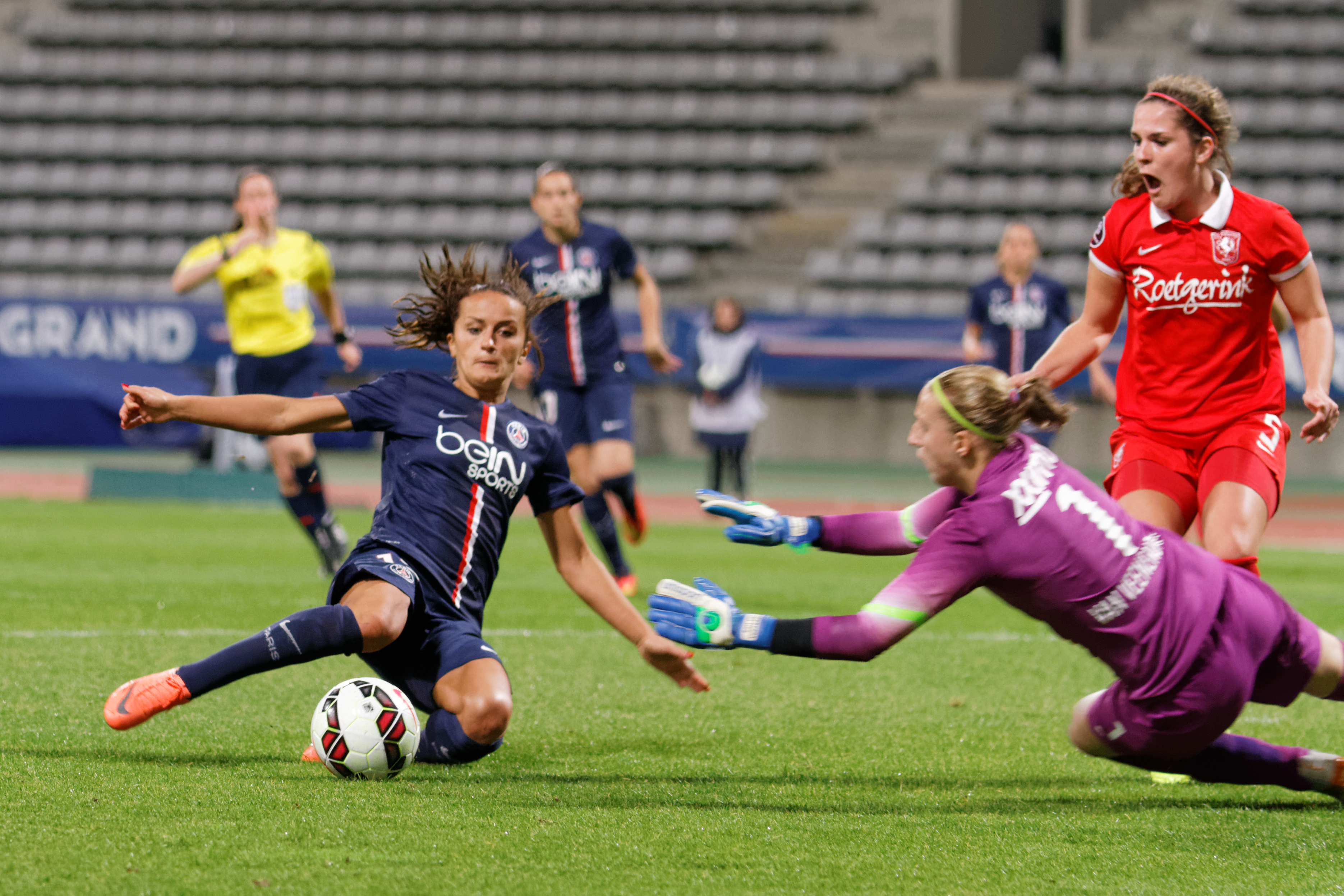 UEFA Women's Champions League, PSG - Twente, 15 October 2014